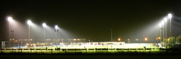 BastionGardensByNight